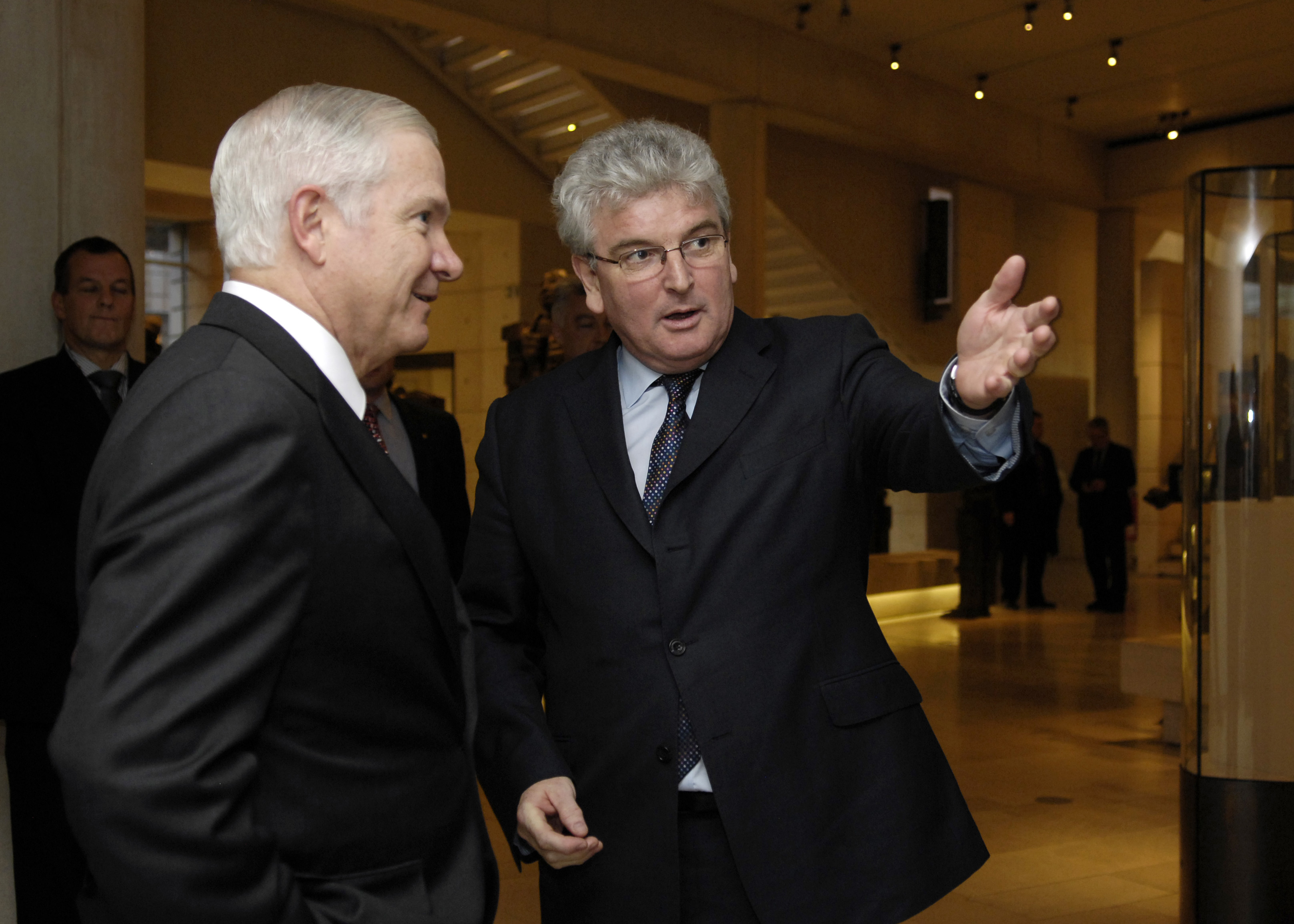 Des Browne talks to Robert Gates during a tour of the Royal Museum of Scotland in Edinburgh.